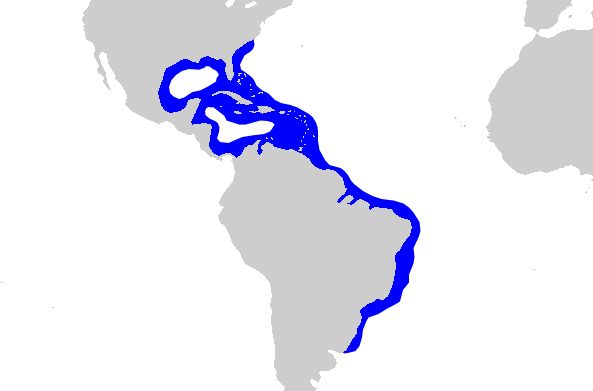 Distribution map for Carcharhinus acronotus